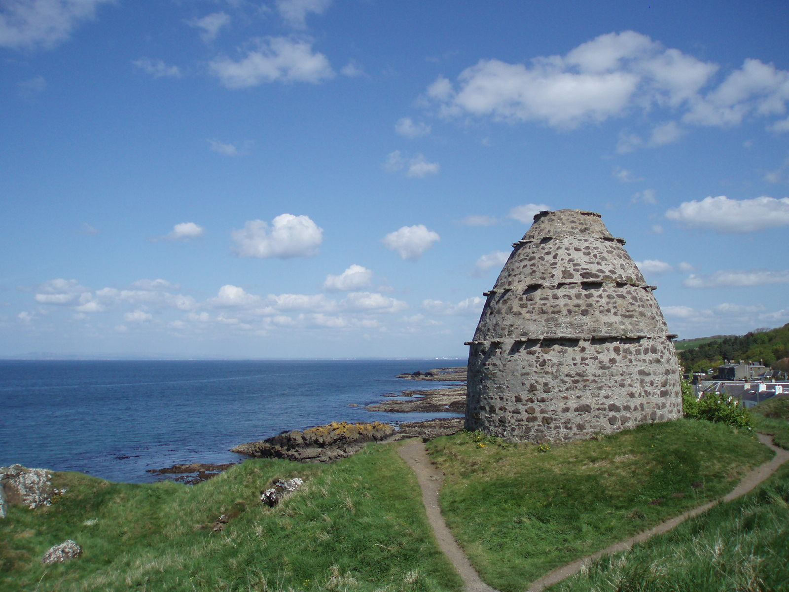 Dovecote, Dunure